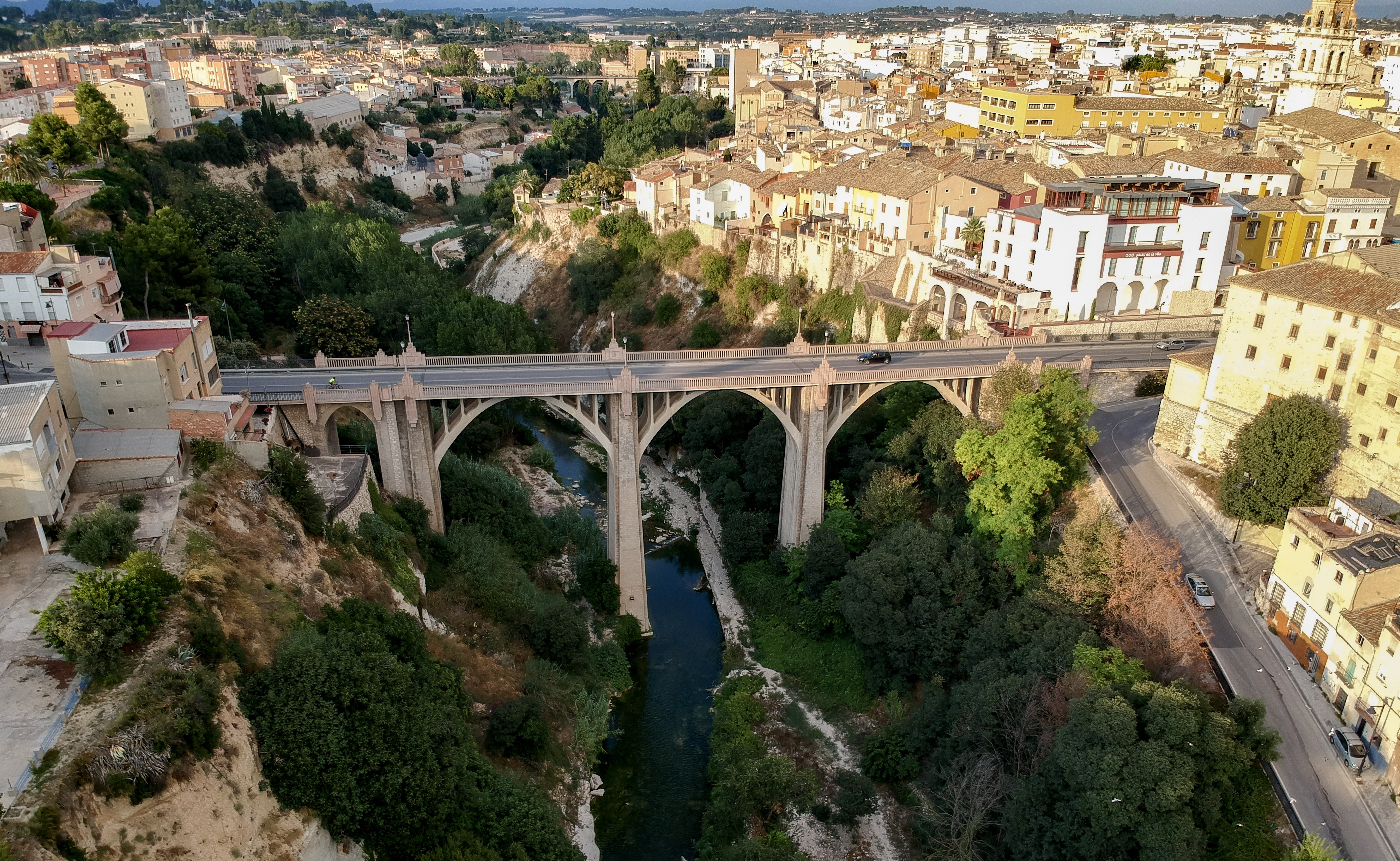 Bridge in Ontinyent, Spain